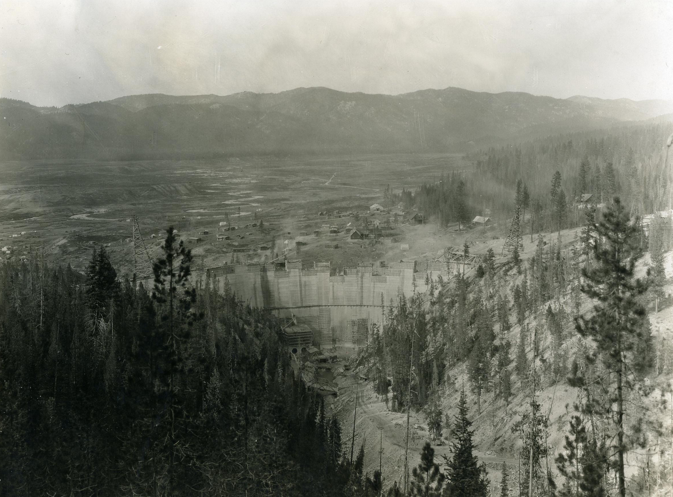 Image Title: Deadwood Dam Date: c.1930 Place: Deadwood River, 25 miles (40 km) southeast of Cascade, Idaho Description/Caption: On verso, "Deadwood Dam Boise project, Idaho" Medium: black and white photograph Photographer/Maker: Unknown Cite as: ID-A-0288, Restrictions: There are no known U.S. copyright restrictions on this image. While the digital image is freely available, it is requested that be credited as its source. For higher quality reproductions of the original physical version contact restrictions may apply.